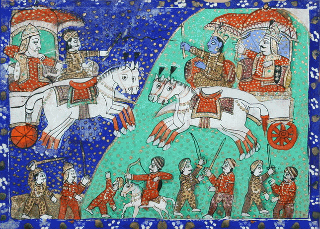 The Battle of Kurukshetra Kashmir c. 1820